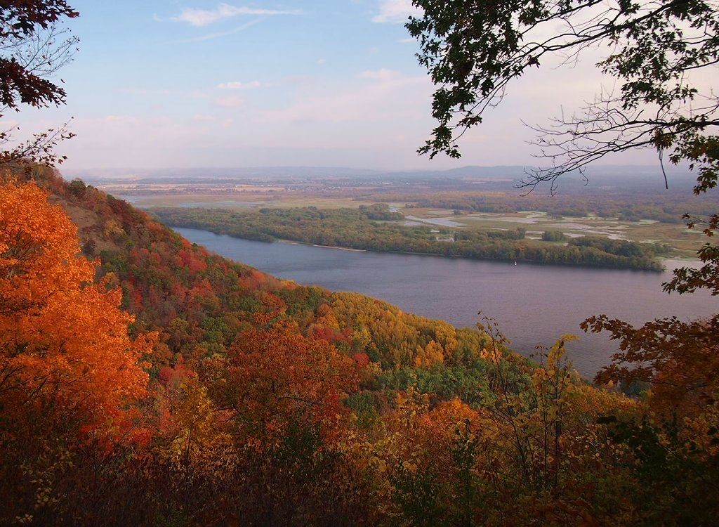 Mississippi River from overlook on campground road, Great River Bluffs State Park, Minnesota, USA